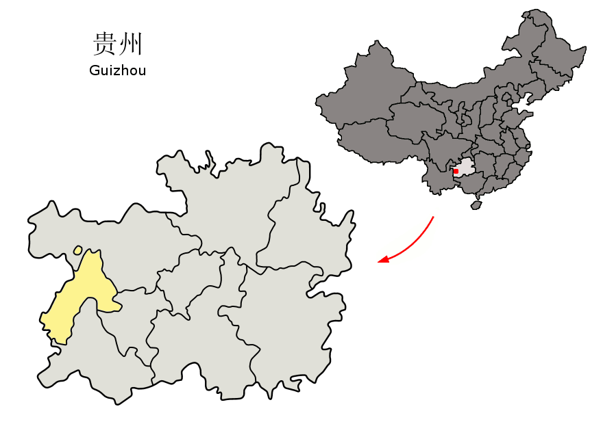 Location of Liupanshui Prefecture (yellow) within Guizhou province of China Map drawn in november 2007 using various sources, mainly : Guizhou province administrative regions GIS data: 1:1M, County level, 1990 Guizhou Counties map from